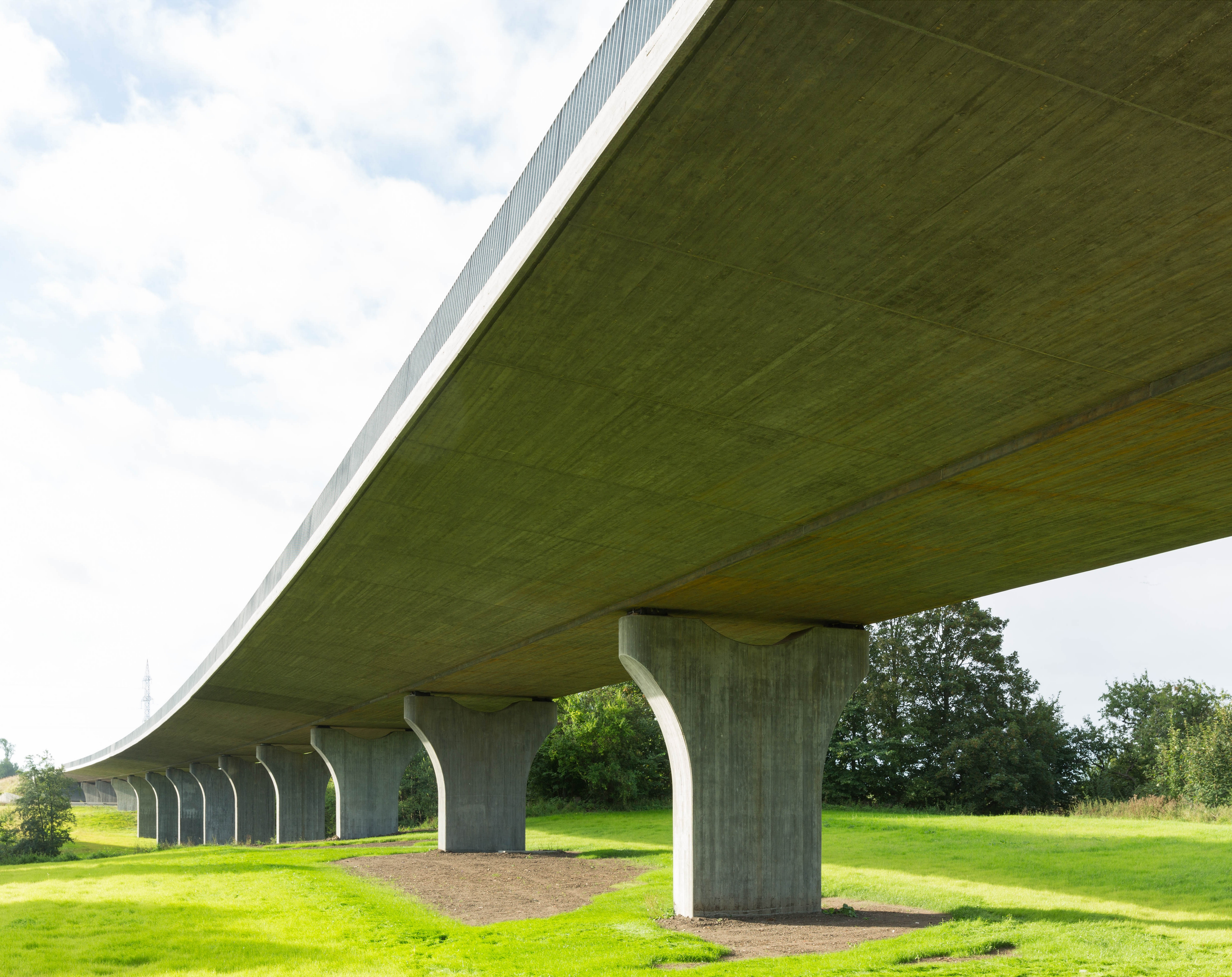 Bridge for the coming light rail in Aarhus, over the Egå valley